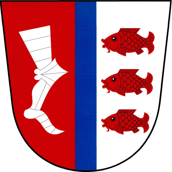 Coat of amrs of Drásov , District Příbram, Czech Republic